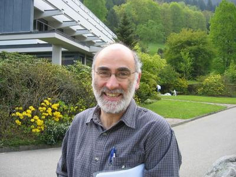 Arjeh Cohen, Oberwolfach 2004